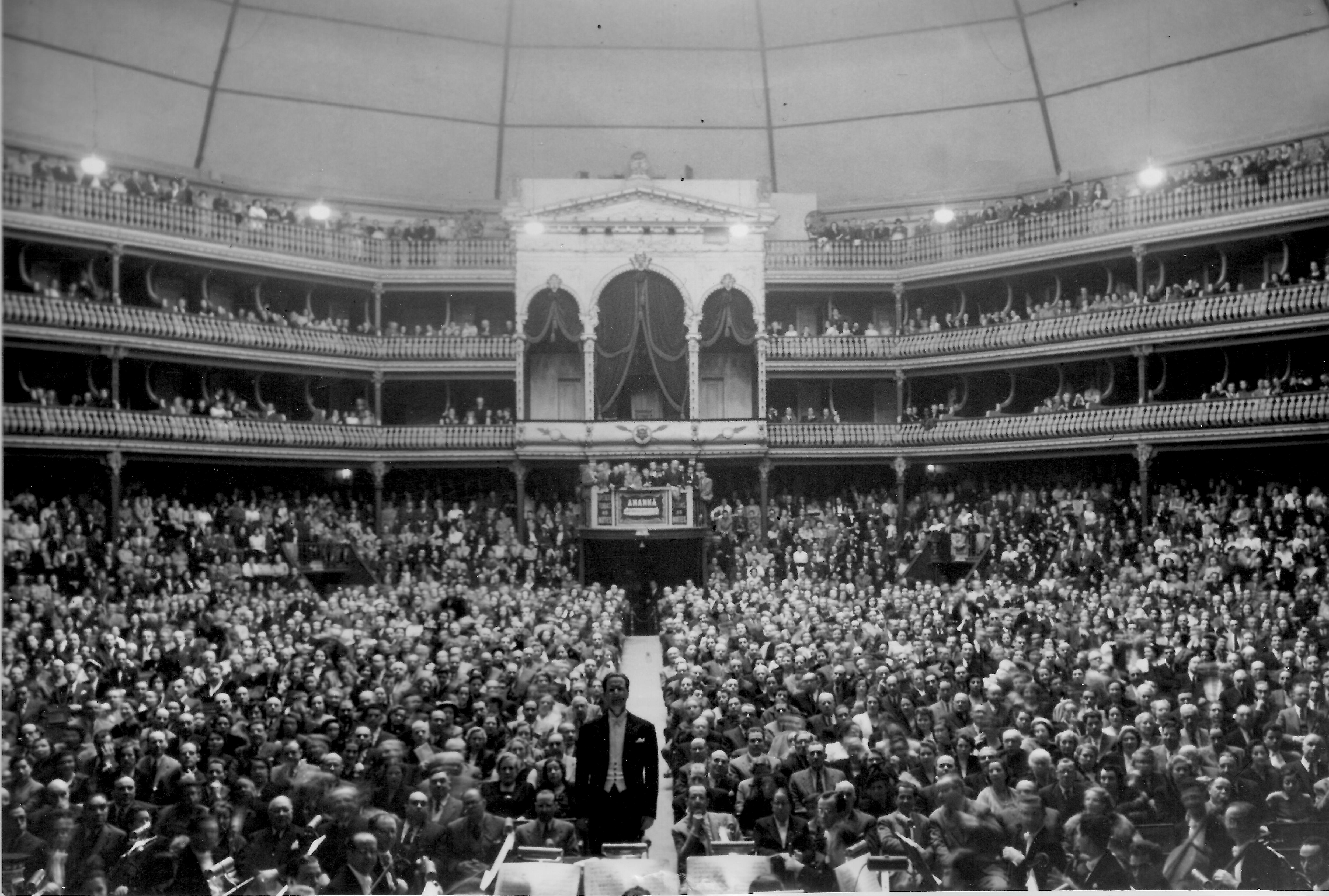 M° Ino Savini at Lisbon Coliseu Theatre during Italian Opera Tournée 1952